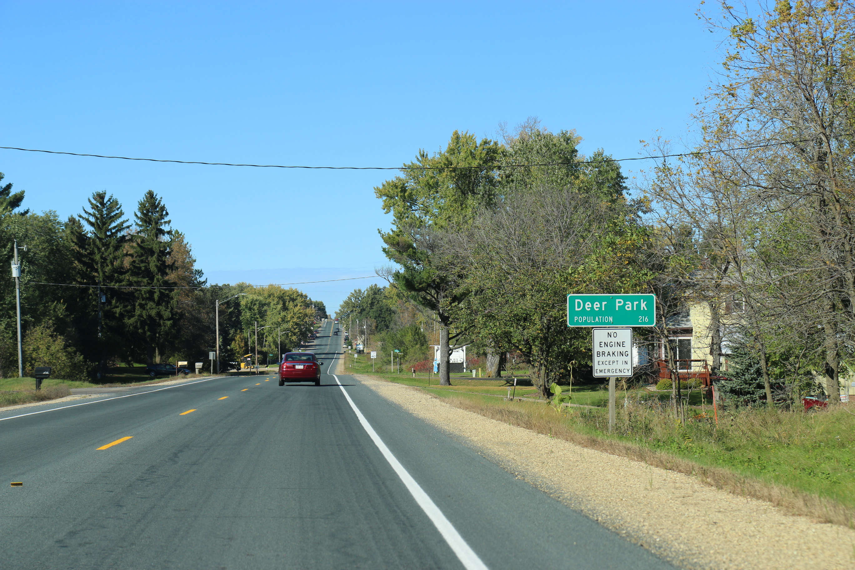 The sign for Deer Park, Wisconsin.